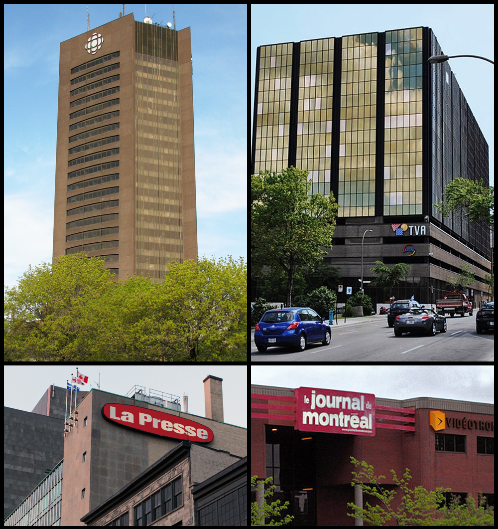 Bureau de La Presse sur la rue Saint-Jacques, Montréal Édifice du Journal de Montréal sur la rue Frontenac, Montréal